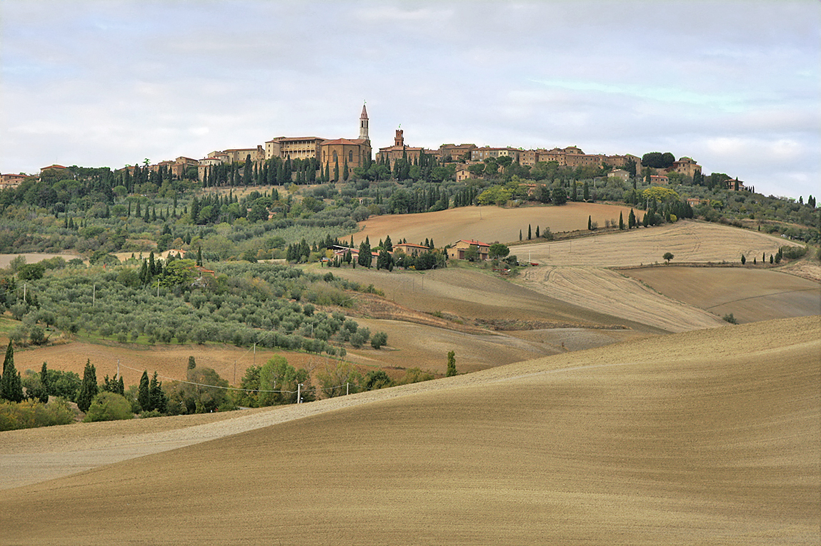 A view of Pienza, Italy